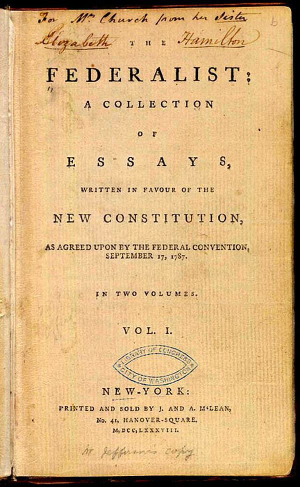 Title page of Publius (pseudonym) [Alexander Hamilton, John Jay, James Madison] (1788) The Federalist: A Collection of Essays, Written in Favour of the New Constitution, as Agreed upon by the Federal Convention, September 17, 1787. In Two Volumes. (1st ed.), New York, N.Y.: Printed and sold by J. and A. M'Lean, No. 41, Hanover-Square OCLC: 642792893. This copy is from the Rare Books and Special Collections Division of the Library of Congress.